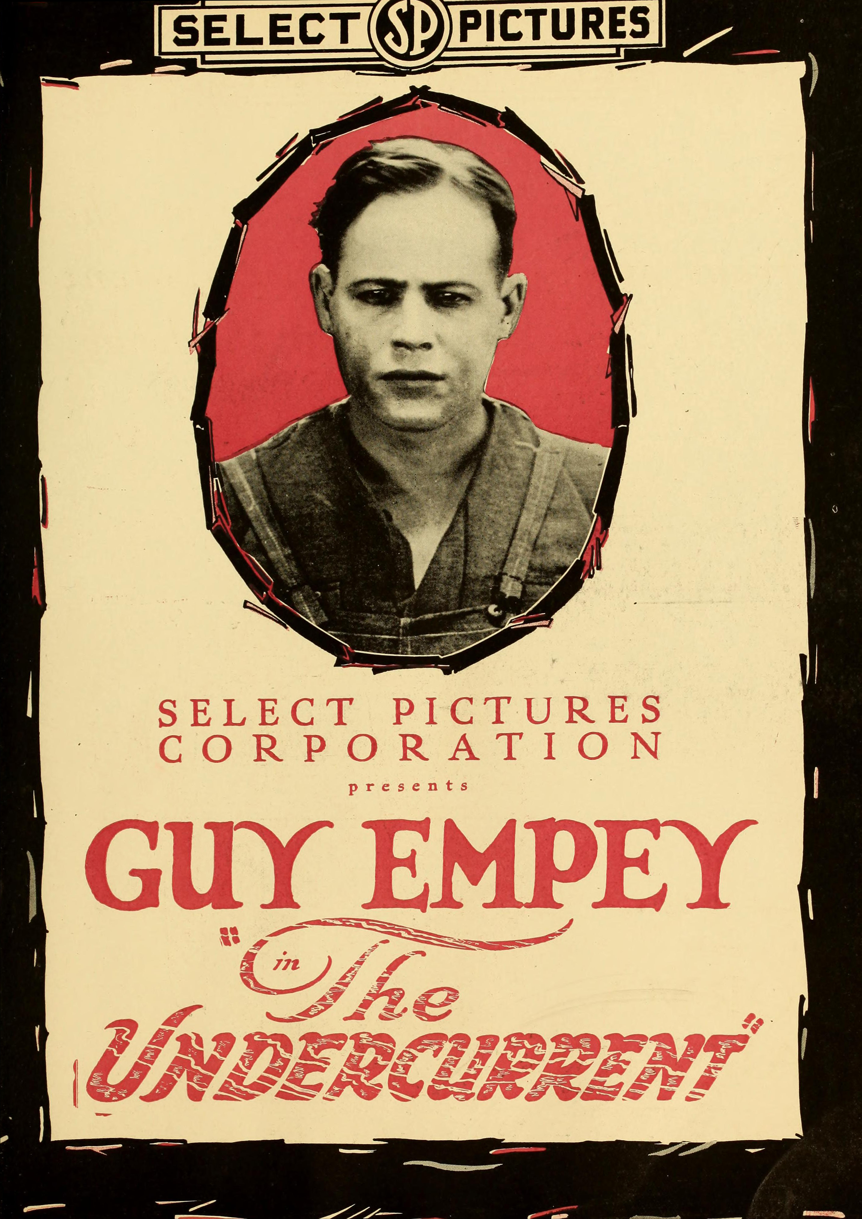 Advertisement for the film The Undercurrent (1919). Moving Picture World, June 1919.